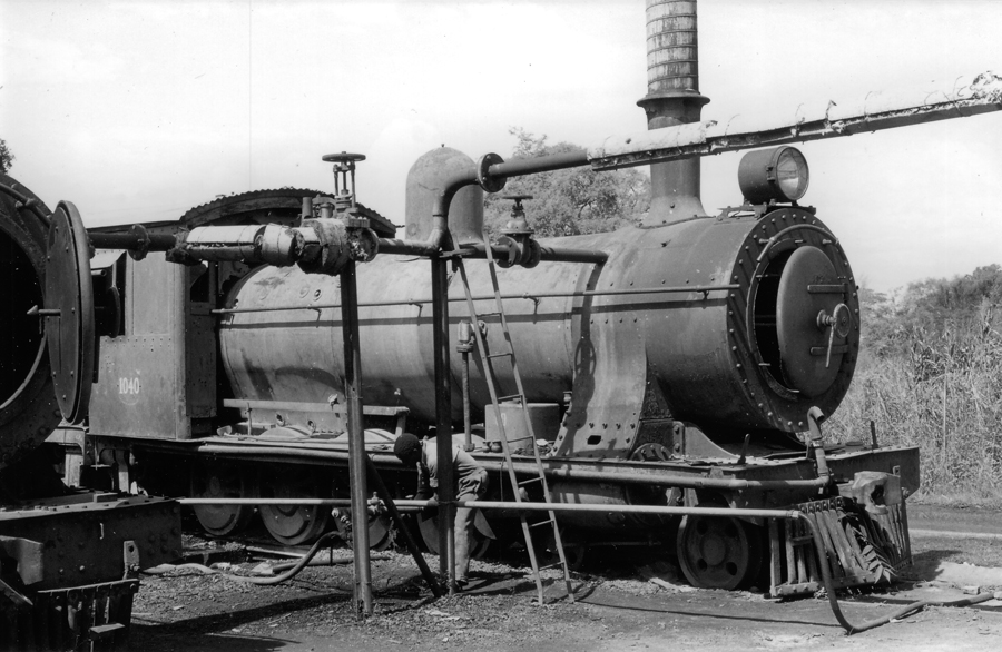 Ex Imperial Military Railways Class 7 113 (4-8-0) Ex Central South African Railways Class 7 383 (4-8-0) South African Railways Class 7B 1040 (4-8-0) Builder's Number: Neilson, Reid 5820 Location: Livingstone, Zambia